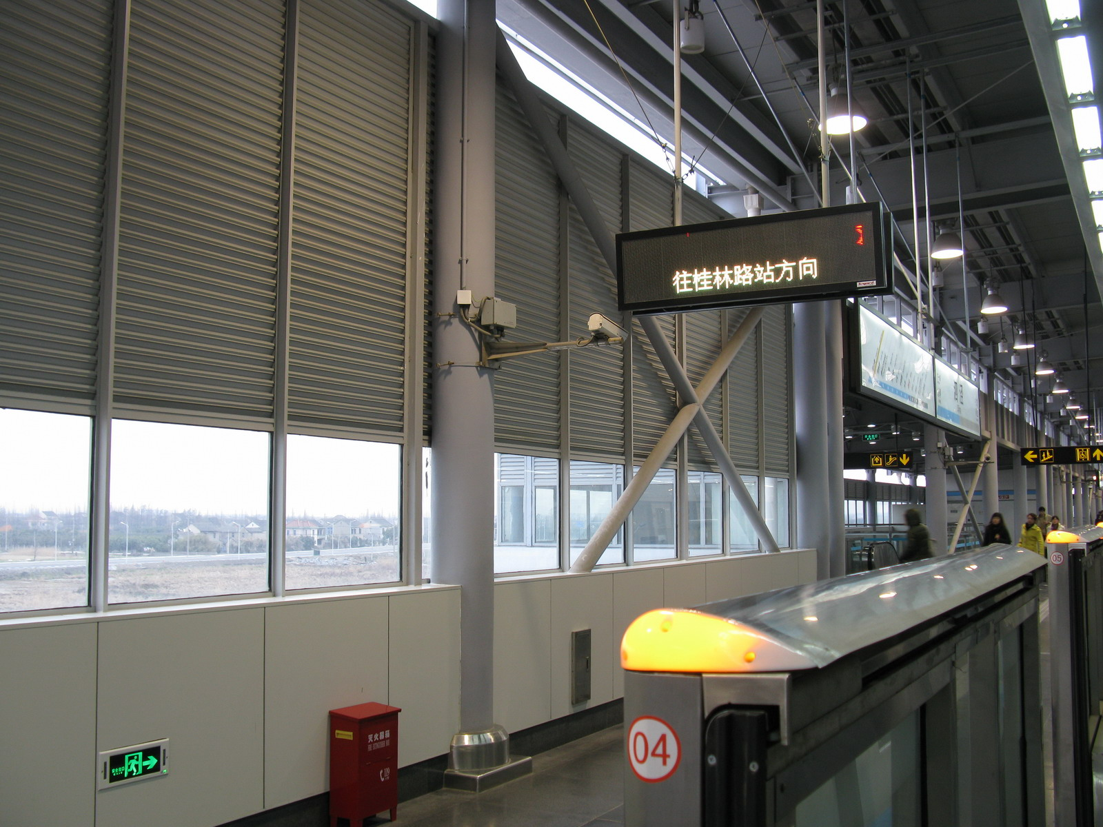 泗涇站-9號線月台 Line 9 Platform of Sijing Station